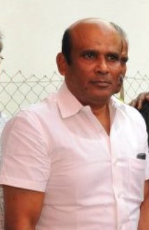 vagai santhrasekar